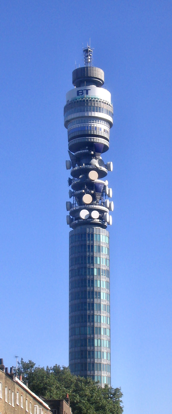 The BT Tower.